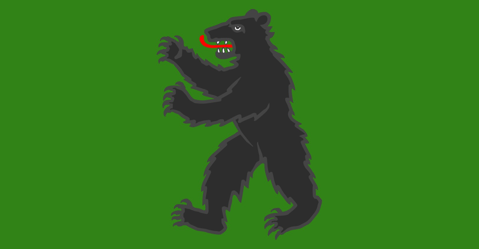 Flag of house Mormont in A Song of Ice and Fire by George R. R. Martin